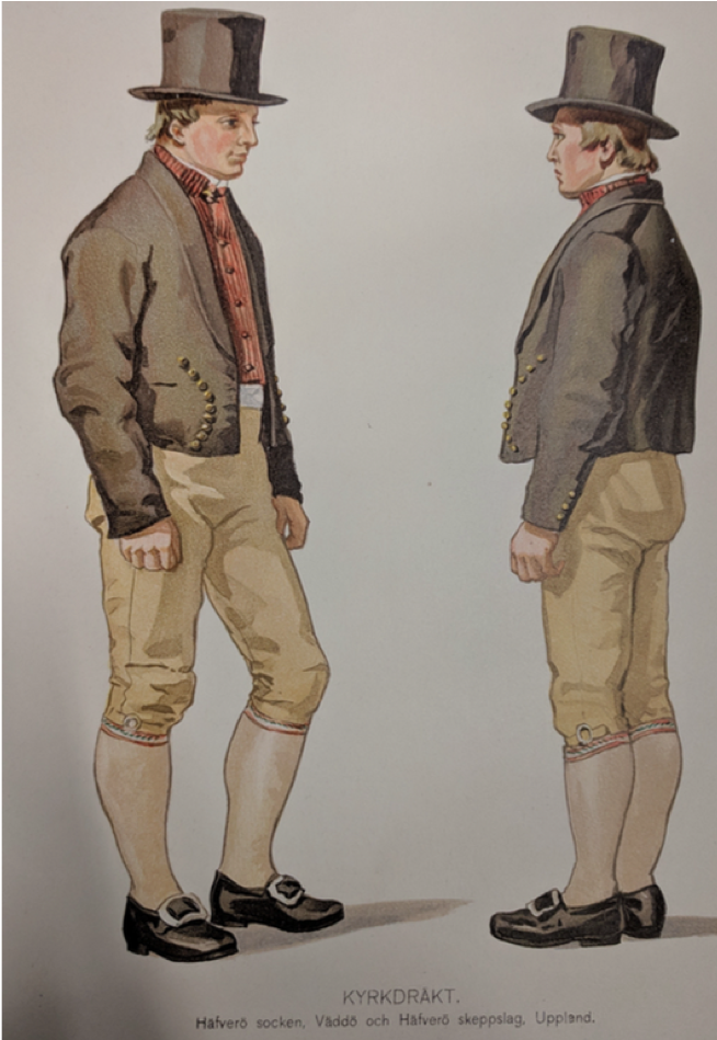 Man dressed in Häver folkdräkt (Häverö folk costume), Uppland, Sweden